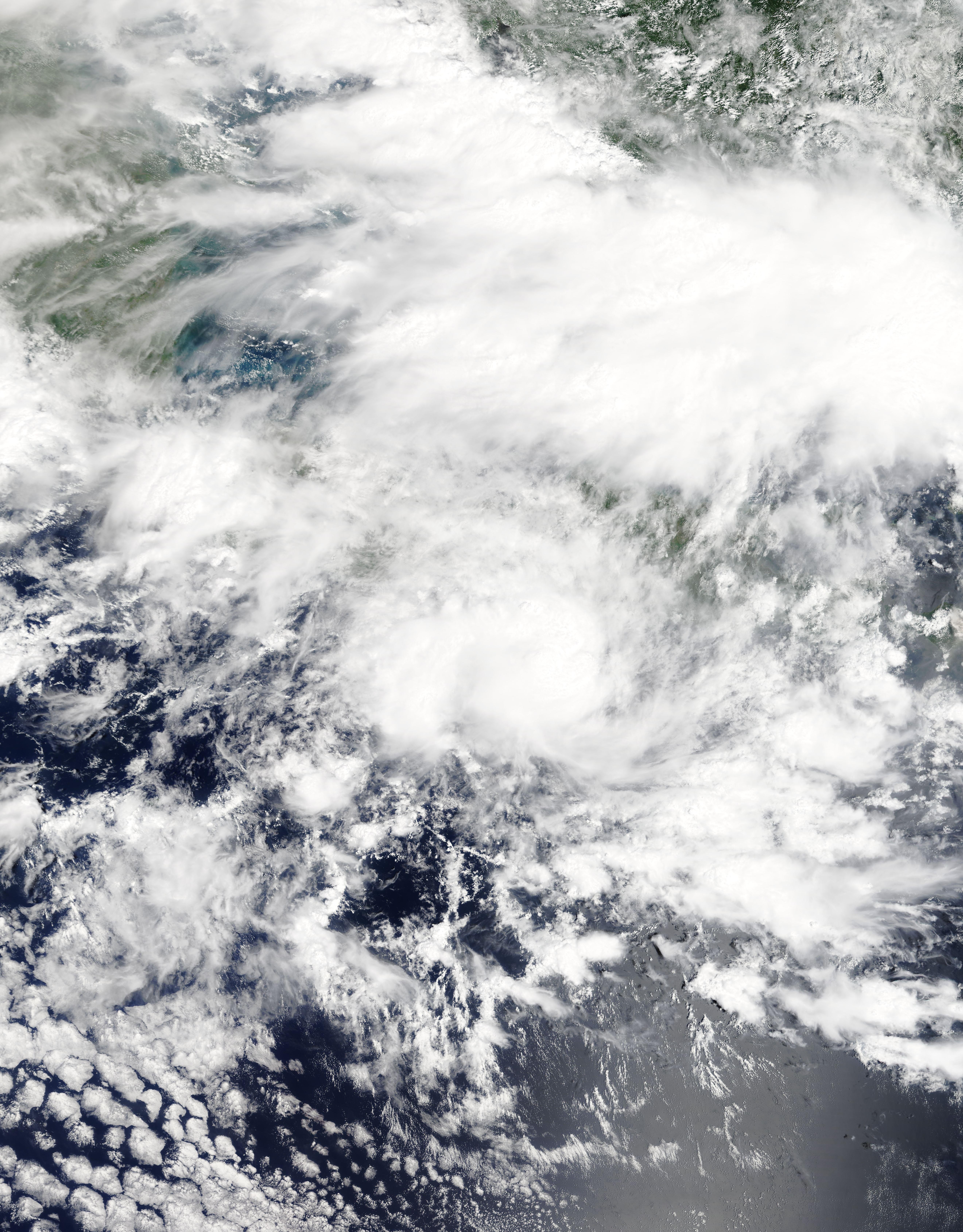 Tropical Cyclone Cempaka during its peak intensity south of East Java on November 27, 2017